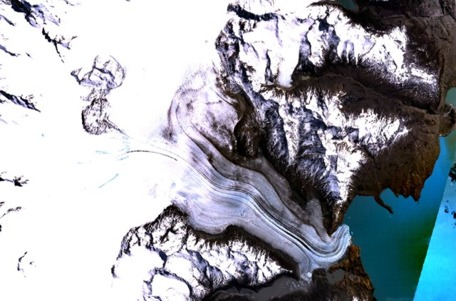 The figure-8-shaped area rising above the Patagonian Icefield at the upper left part of this NASA Landsat mosaic is part of the Viedma volcanic complex. An outflow glacier descends into Lake Viedma at the lower right. This mostly subglacial volcano produced an eruption in 1988 that confirmed the presence of a postulated subglacial vent in the Patagonian Icefield NW of Viedma Lake. The 1988 eruption deposited ash and pumice on the icecap and produced a mudflow that reached Viedma Lake.